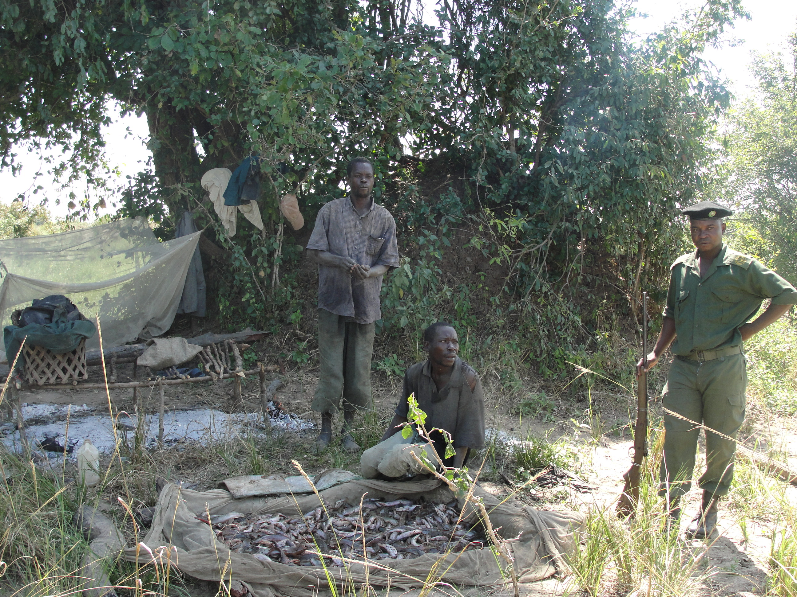 Poachers accused of illegal fishing detained in South Luangwa national park, May 2010